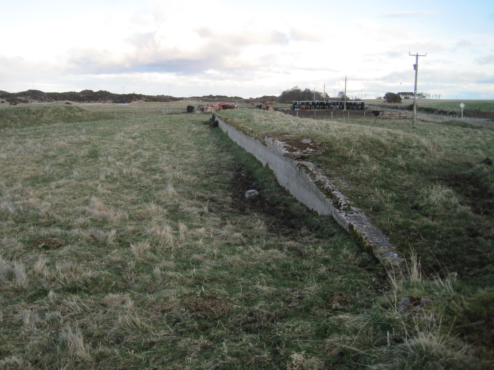 Skelbo railway station (site), HighlandOpened in 1902 on the Highland Railway's branch line from The Mound to Dornoch, this station closed in 1960. View east from the former level crossing towards Embo and Dornoch.